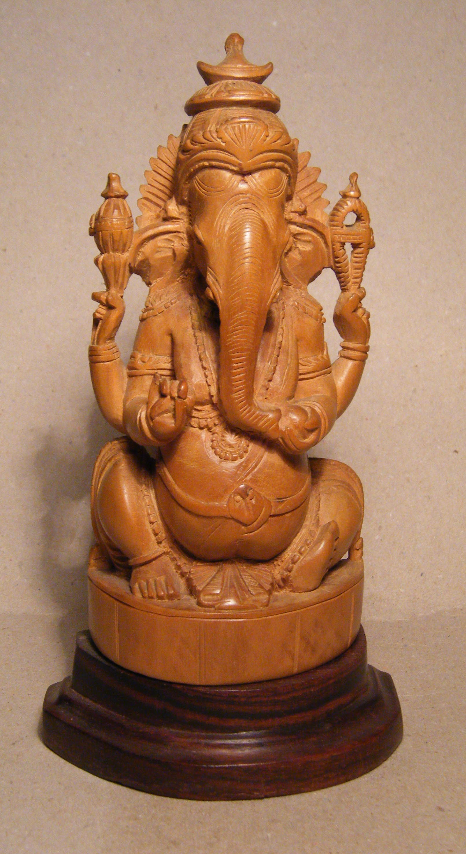 Staute of Ganesha in sandal wood